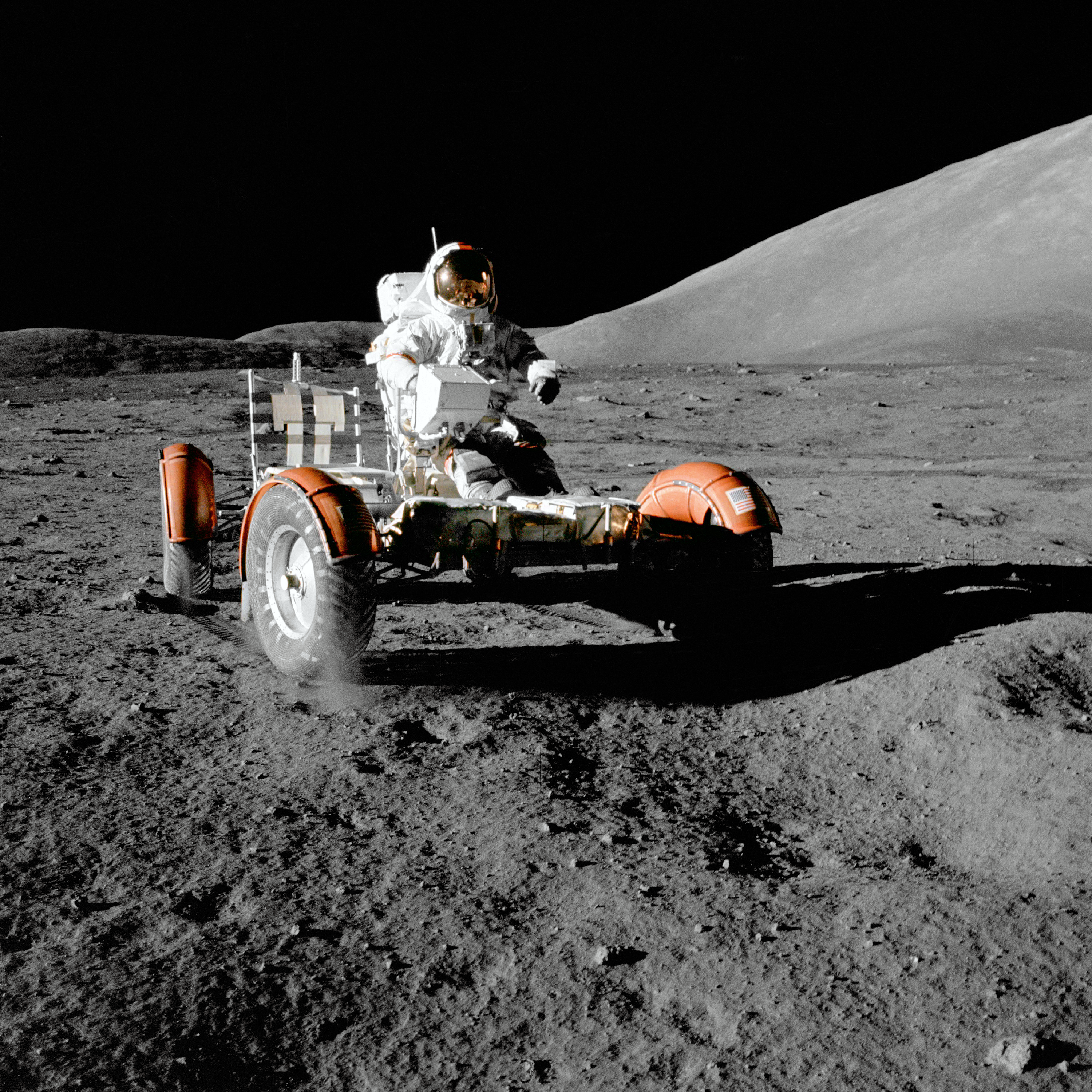 Apollo 17 mission, 12 December 1972. Astronaut Eugene A. Cernan, commander, makes a short checkout of the Lunar Roving Vehicle (LRV) during the early part of the first Apollo 17 Extravehicular Activity (EVA-1) at the Taurus-Littrow landing site. This view of the "stripped down" LRV is prior to loading up. Equipment later loaded onto the LRV included the ground-controlled television assembly, the lunar communications relay unit, hi-gain antenna, low-gain antenna, aft tool pallet, lunar tools and scientific gear. This photograph was taken by scientist-astronaut Harrison H. Schmitt, lunar module pilot. The mountain in the right background is the east end of South Massif. While astronauts Cernan and Schmitt descended in the Lunar Module (LM) "Challenger" to explore the Moon, astronaut Ronald E. Evans, command module pilot, remained with the Command and Service Modules (CSM) "America" in lunar-orbit. N.B: Original NASA caption.